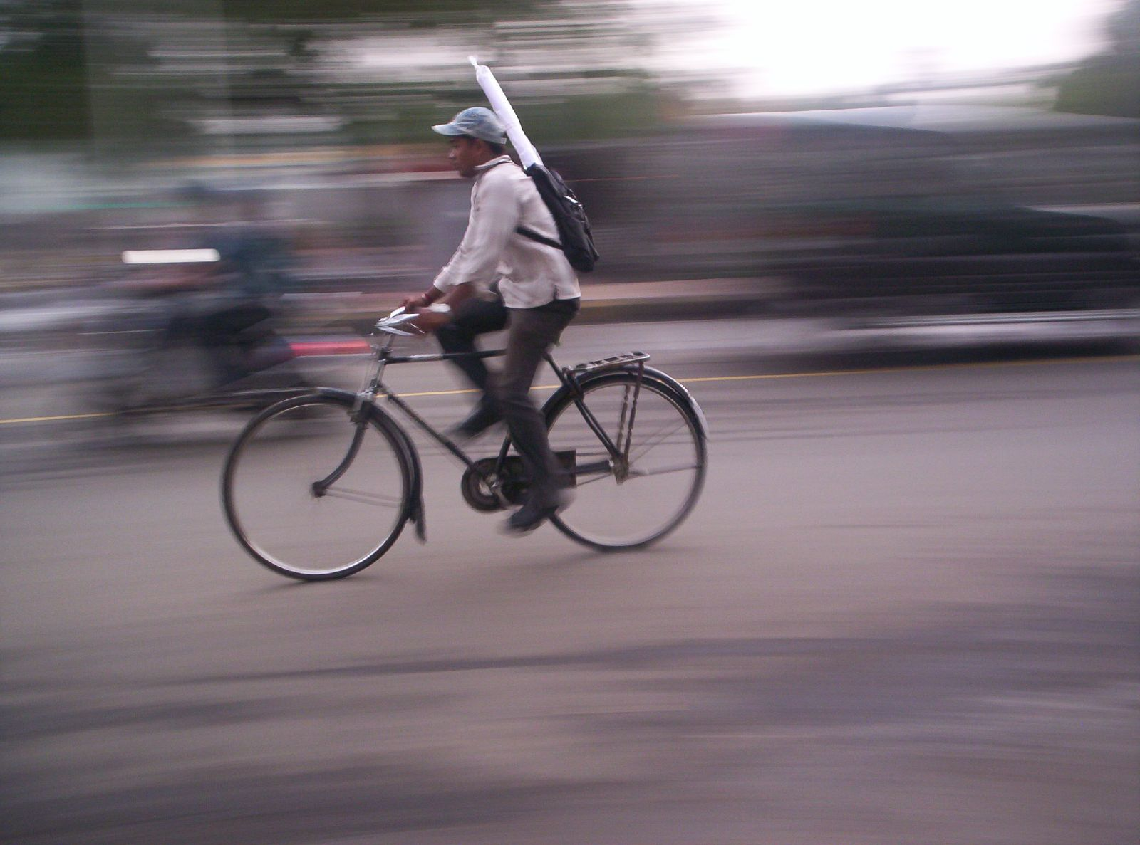 Guy speeding away on a bicycle with a paper roll in a plastic cover. Snap from Pune.